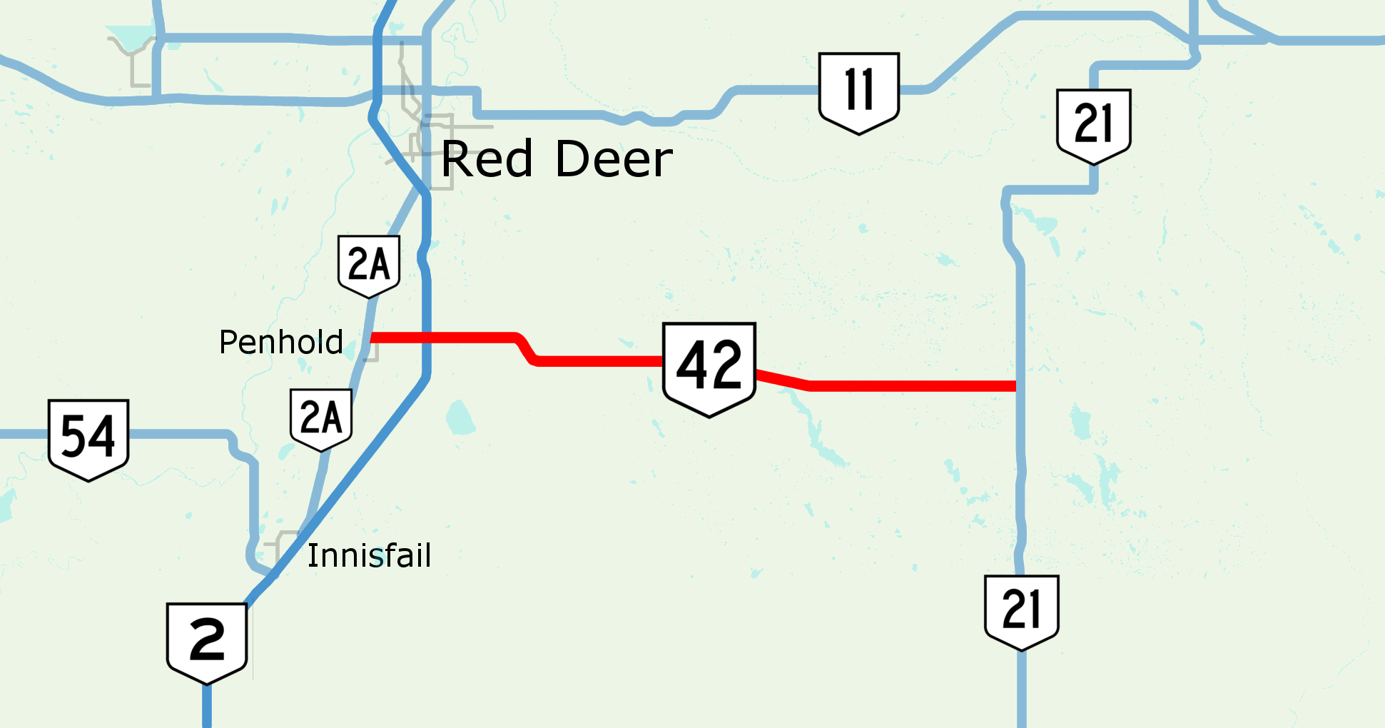 Alignment of Highway 42 in central Alberta.